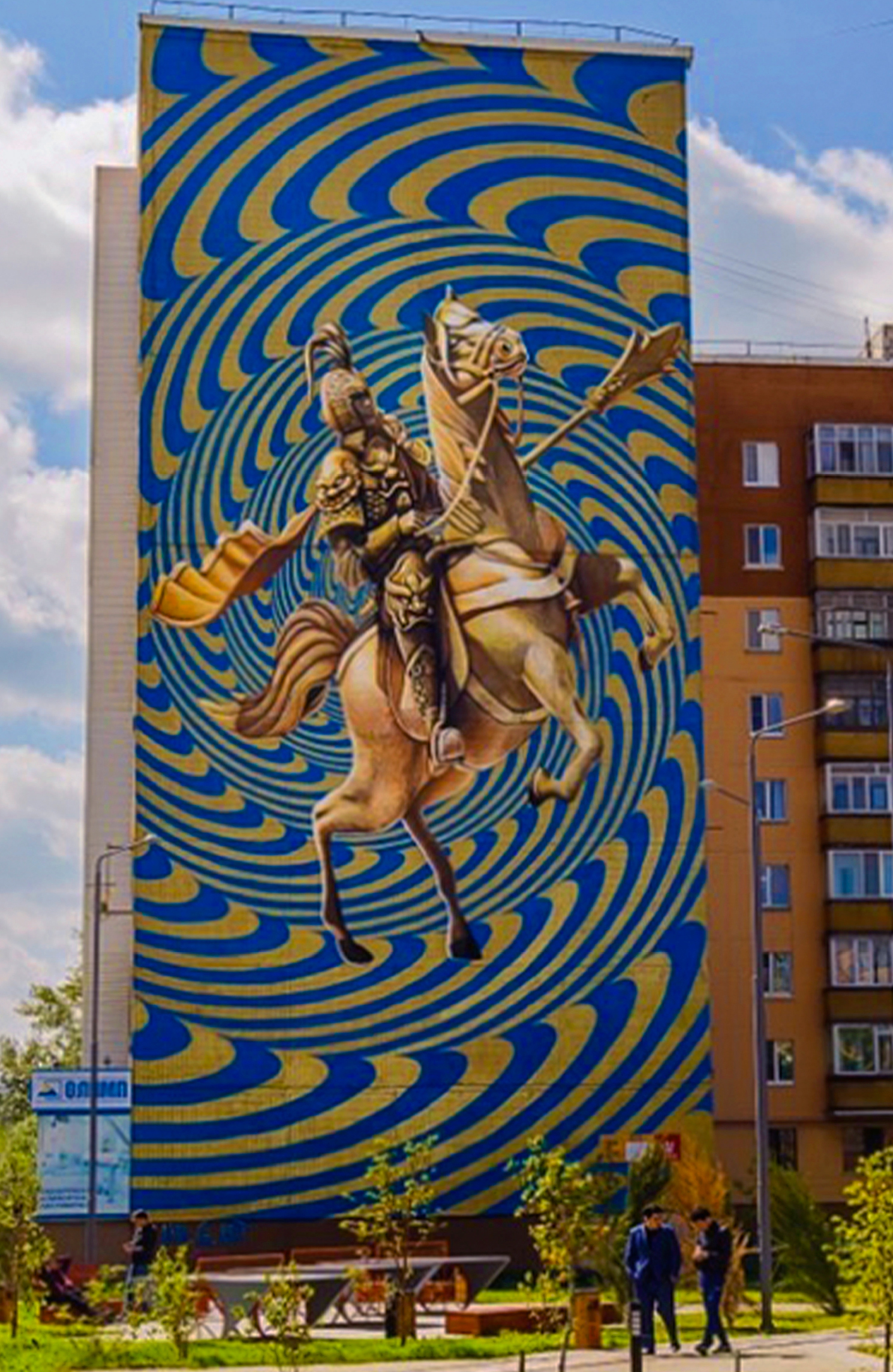 Mural "Sultandar" by Dmitry Levochkin, Urban Art Astana 2018